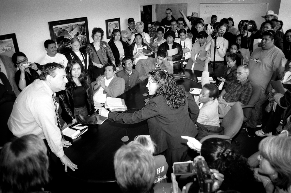 Emira_Palacios, National Peoples Action